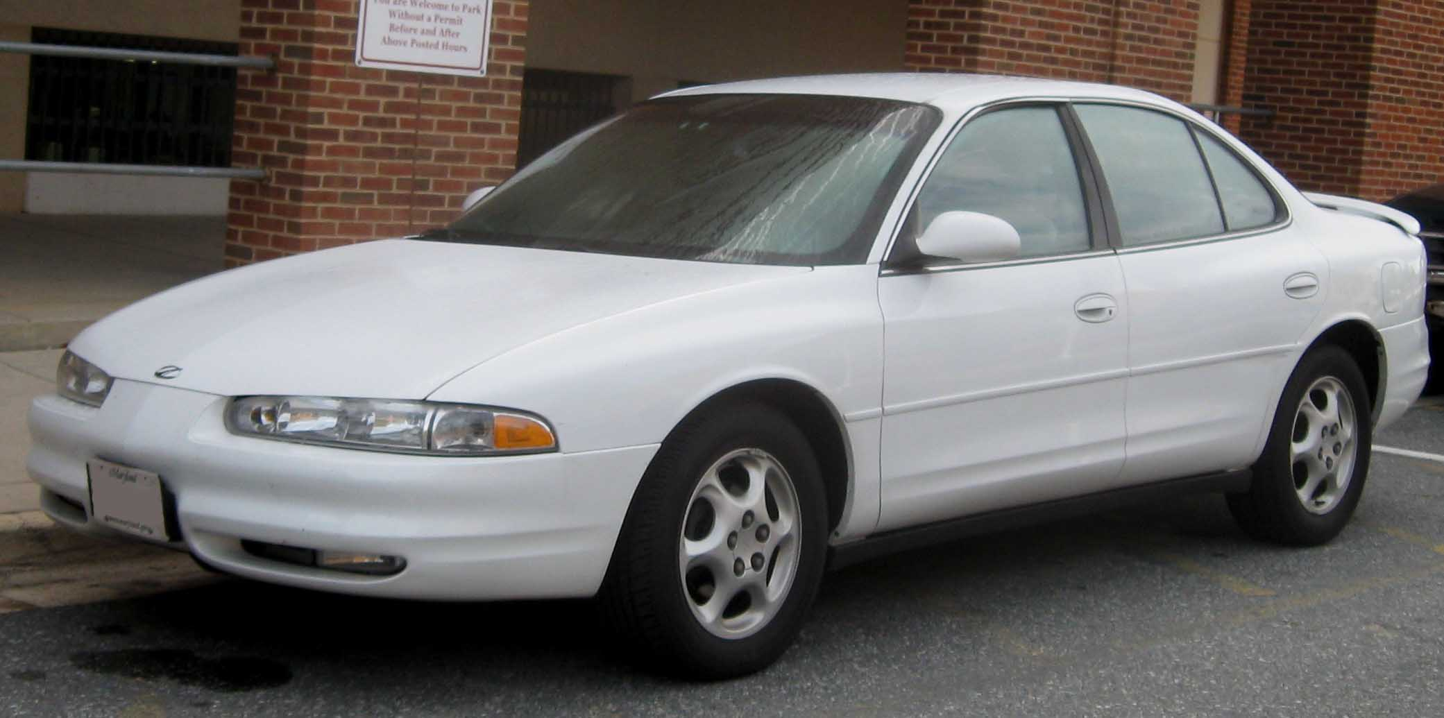 Oldsmobile Intrigue photographed in College Park, Maryland, USA.